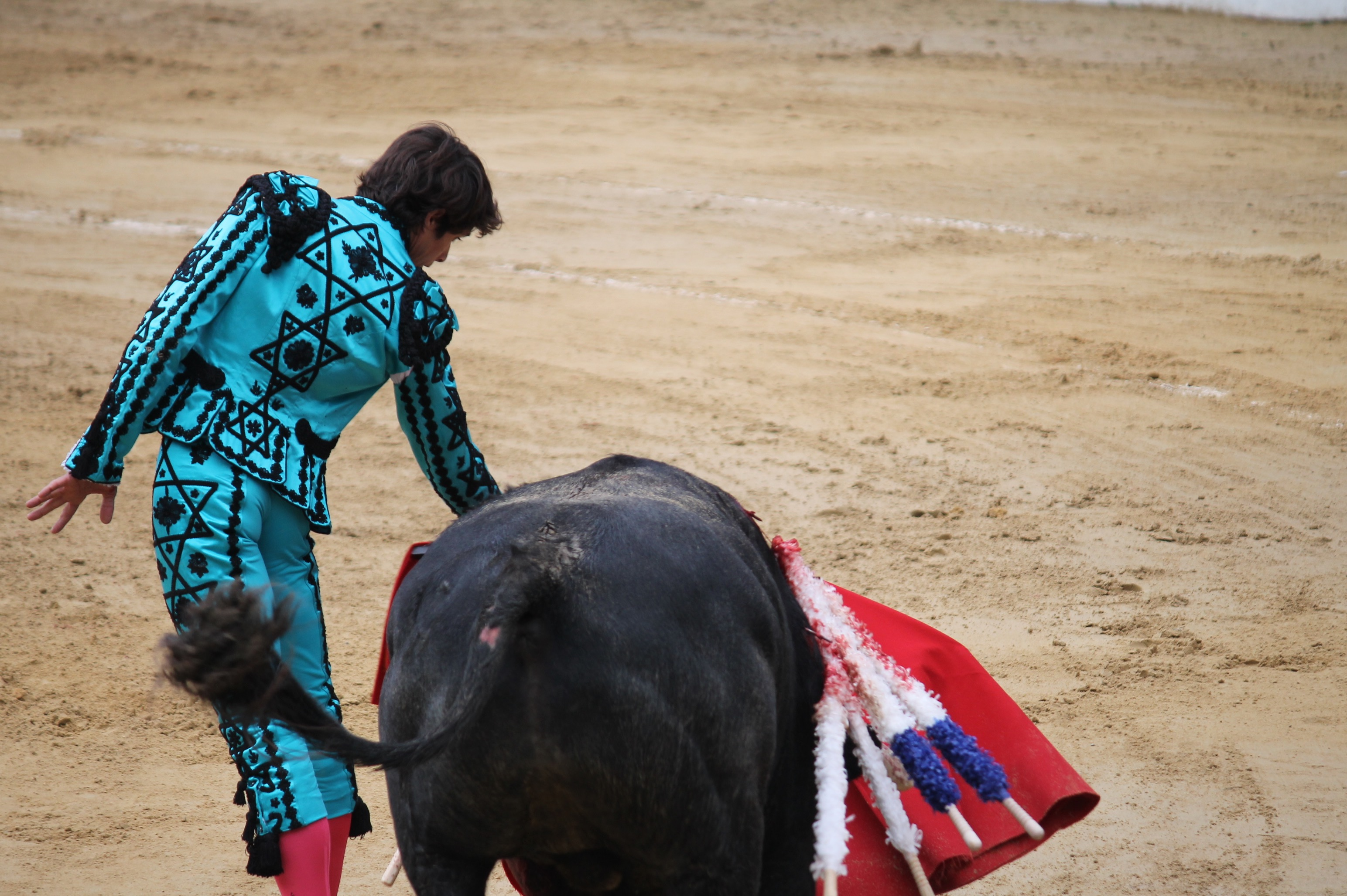 Tercera corrida de abono de 2019 en Bogotá